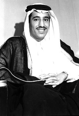 Salman bin Abdullaziz Al Saud in his 30s